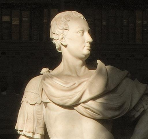 Statue of Christopher Codrington in All Souls Library, Oxford